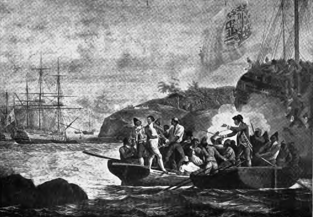 Seizure of Capt. Colnett during the Nootka Crisis in 1789